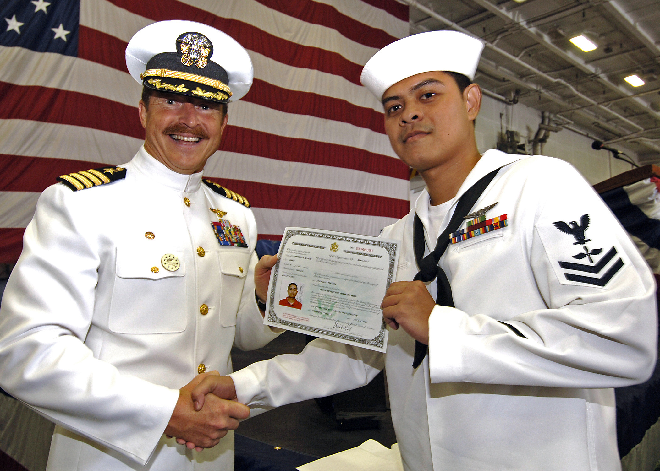 Norfolk, Va. (June 14, 2006) – Aviation Machinist's Mate Elmer Rayos, right, receives his certificate of United States citizenship from USS George Washington (CVN 73) Commanding Officer, Capt. Garry R. White, left, during a naturalization ceremony held aboard the Nimitz-class aircraft carrier. More than 140 U.S. Sailors, Marines and Soldiers from 45 countries took the Oath of Citizenship given by U.S. Citizenship and Immigration Services. The oath highlighted the importance of U.S. citizenship during the naturalization and swearing-in ceremony of military personnel. U.S. Navy photo by Photographer's Mate 3rd Class Michael D. Blackwell II (RELEASED)